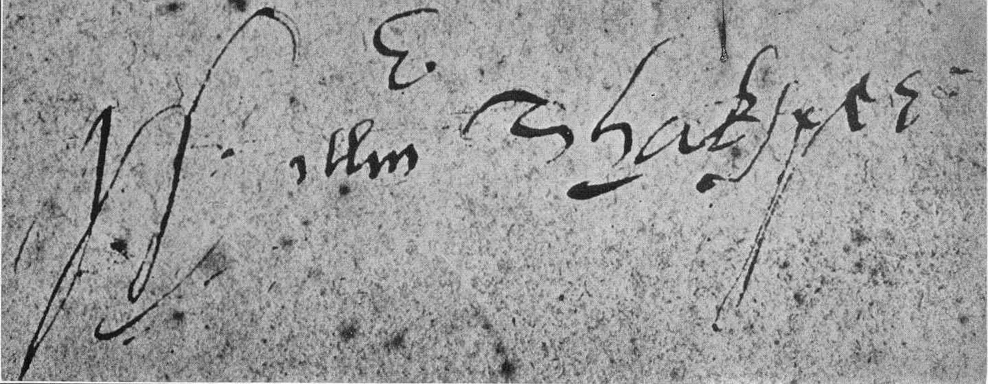 signature aleged to be William Shakespeare's, found in a copy of Florio's Montaigne in trhe early 19th century. Possibly a forgery.